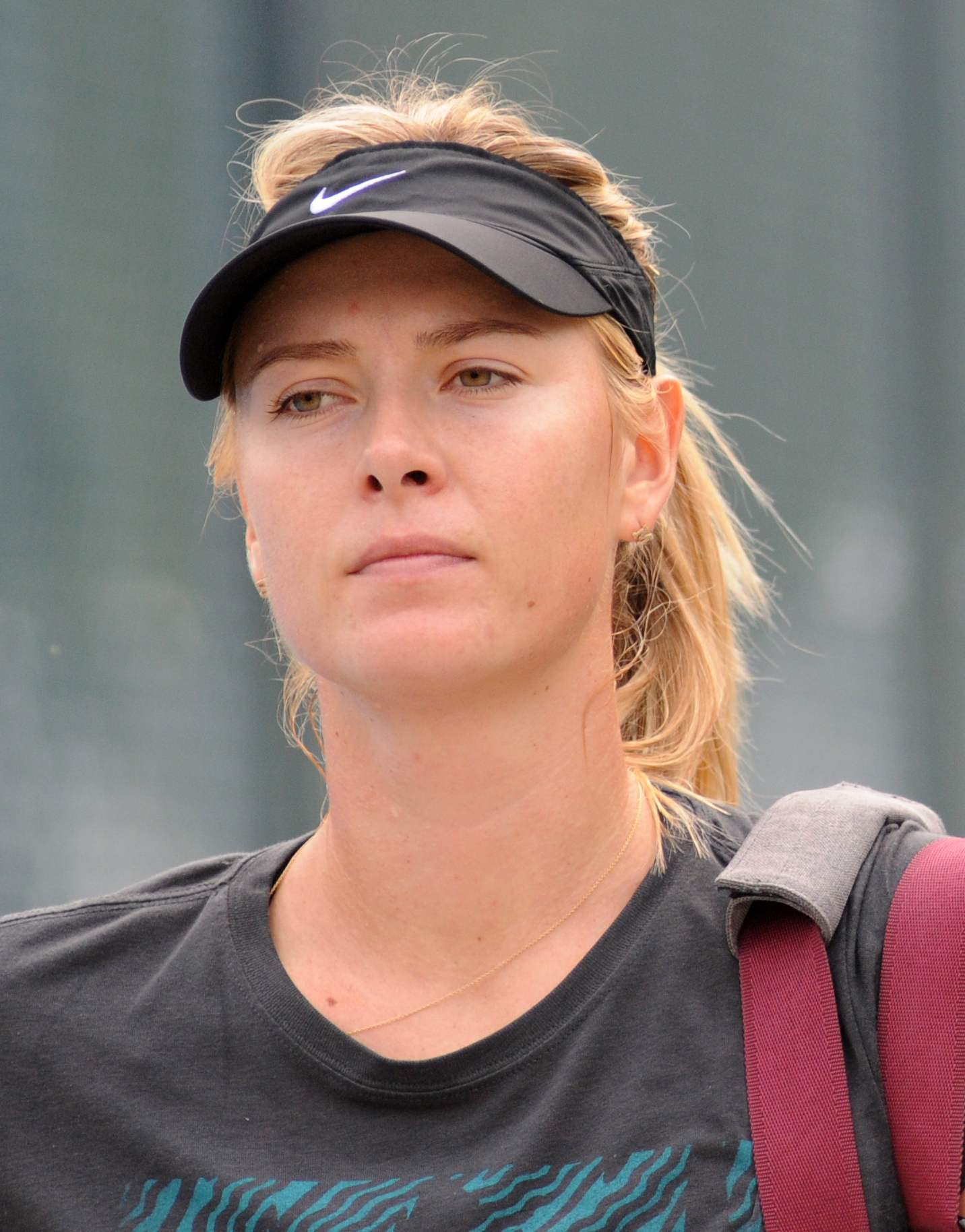 Maria Sharapova at the 2014 China Open